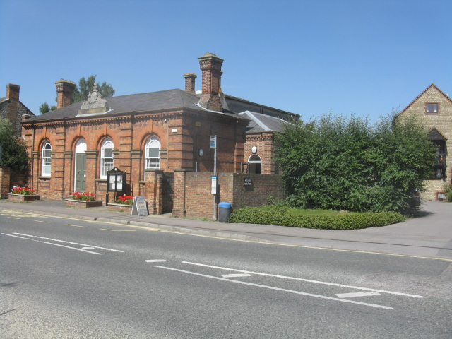 Thame Museum, 79 High Street, Thame, Oxfordshire, seen from the south.Built in1861as a Magistrates' Court.